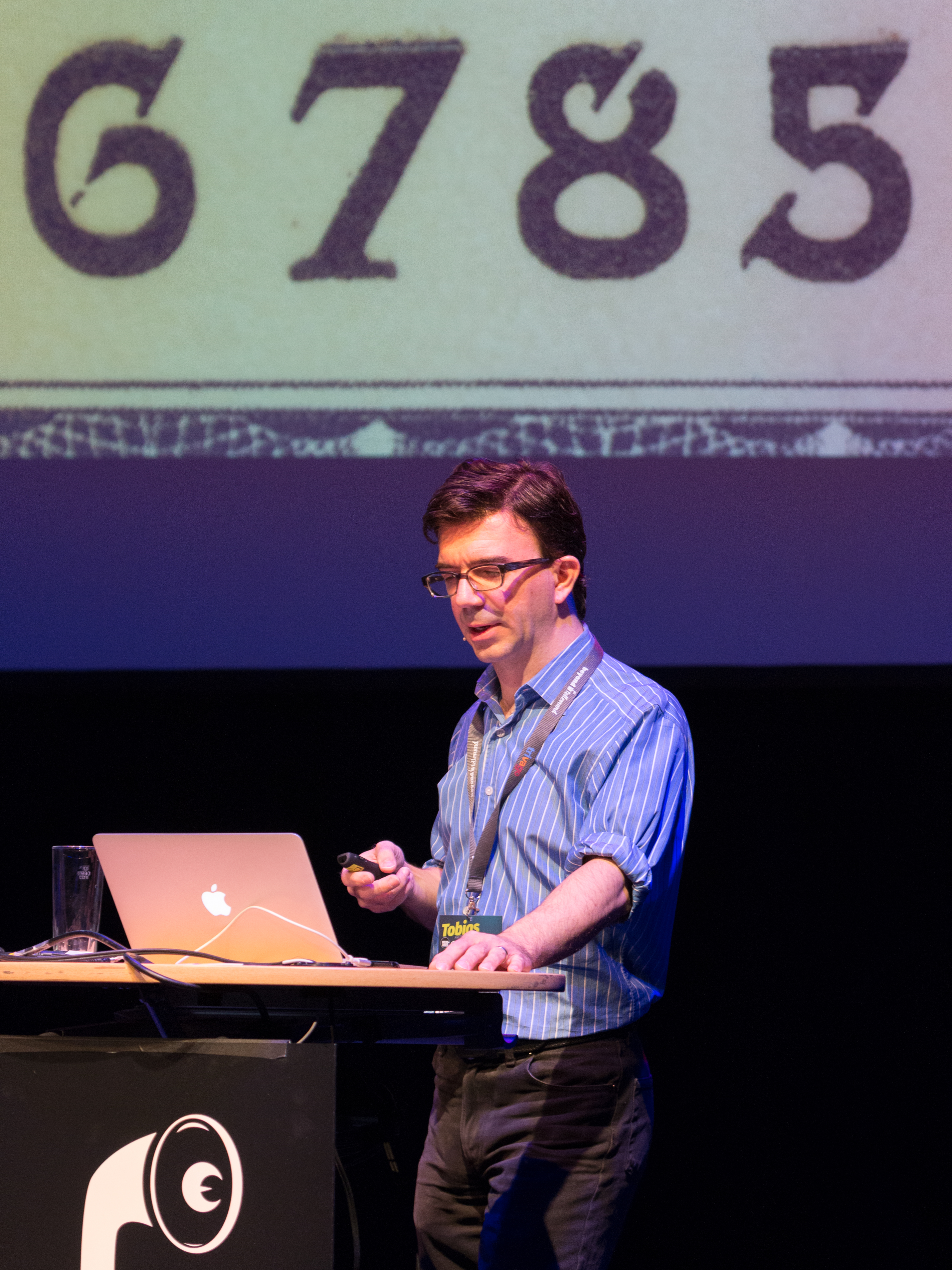 Tobias Frere-JonesTobias Frere-Jones at the Beyond Tellerand Berlin, 2015